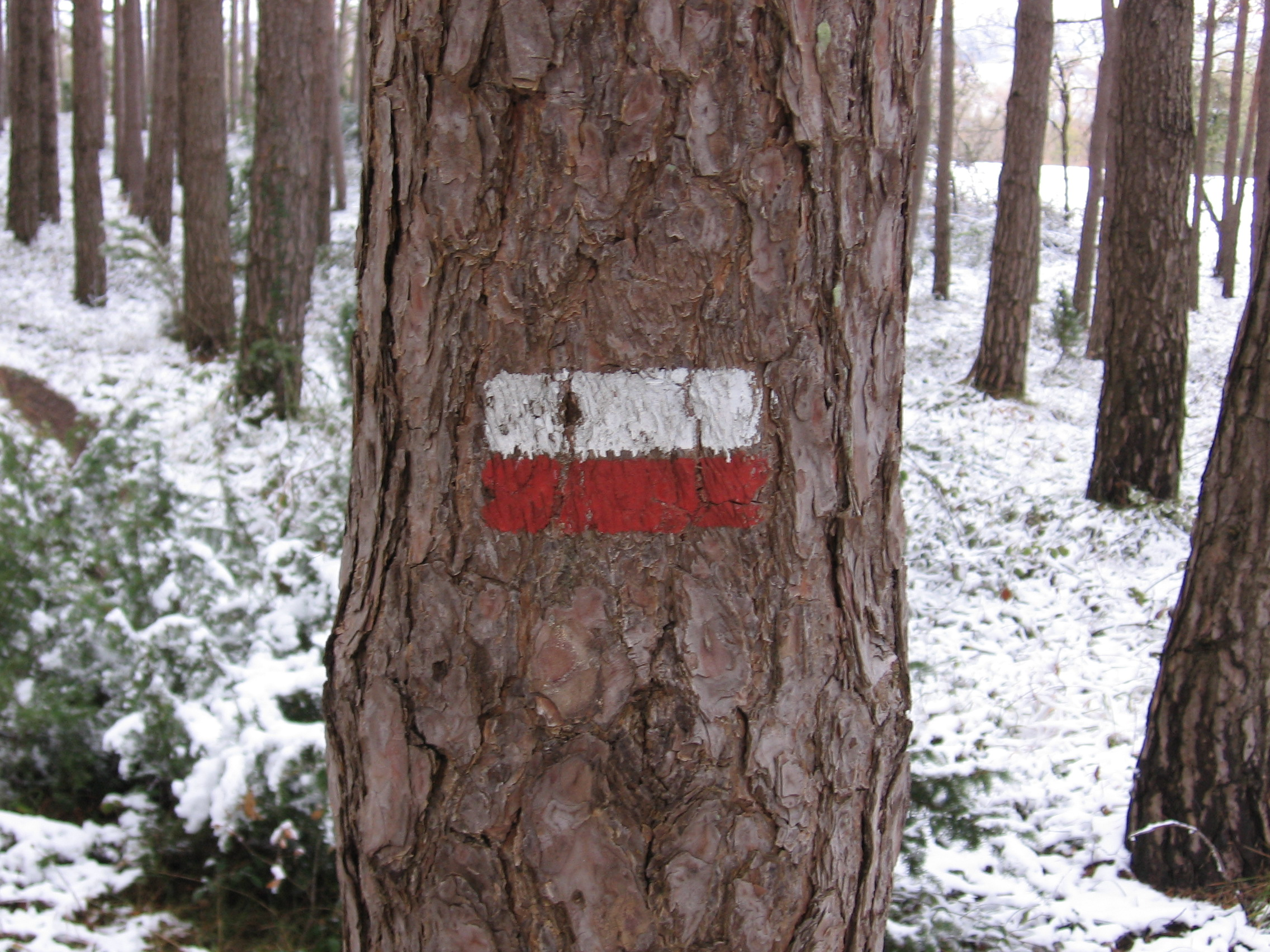 Hiking trail marker on the GR-25 hiking trail, Álava, Basque Country, Spain